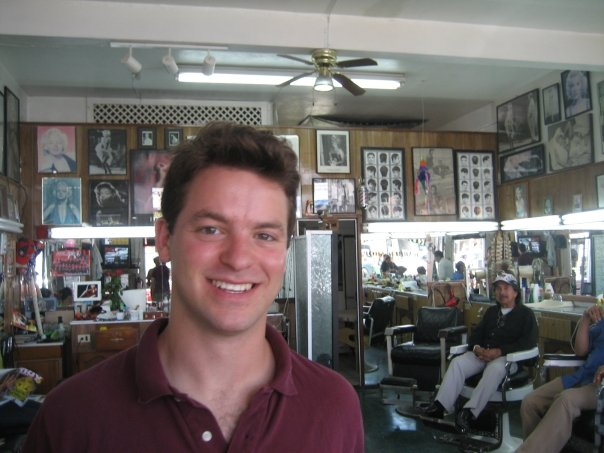 A picture of Zachary Pincus-Roth in Ensenada, Baja California, Mexico.